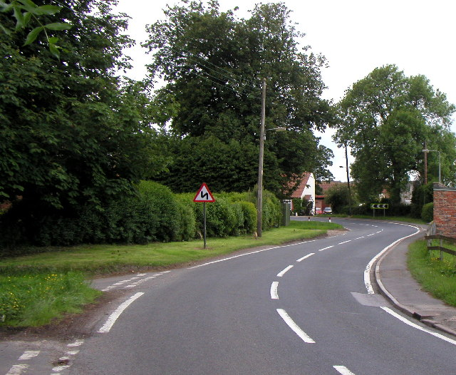 Flinton in Holderness, East Riding of Yorkshire, England.The hamlet from the east. Taken at MR: TA22163623 looking westwards.